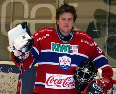 Portrait photo of ice hockey player André Lysenstøen, taken inside Kristins Hall in Lillehammer in November 2006. Photo taken by Arild Åssveen, Webmaster of Lillehammer Ice Hockey Club.